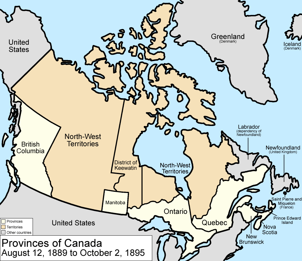 Map of the provinces and territories of Canada as they were between 1889 and 1895. In 1889, the disputed area between Manitoba and Ontario was generally reward to Ontario, which expanded west and north. In 1895, the District of Keewatin expanded to the southeast, taking a part of the North-West Territories. Made by User:Golbez.